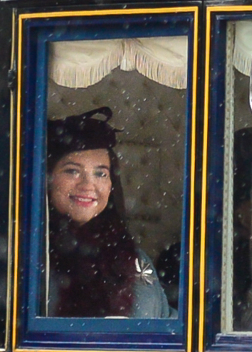 Islands president Gudni Thorlacius Jóhannesson on state visit in Sweden together with his wife Eliza Jean Reid in Stockholm on January 17, 2018.